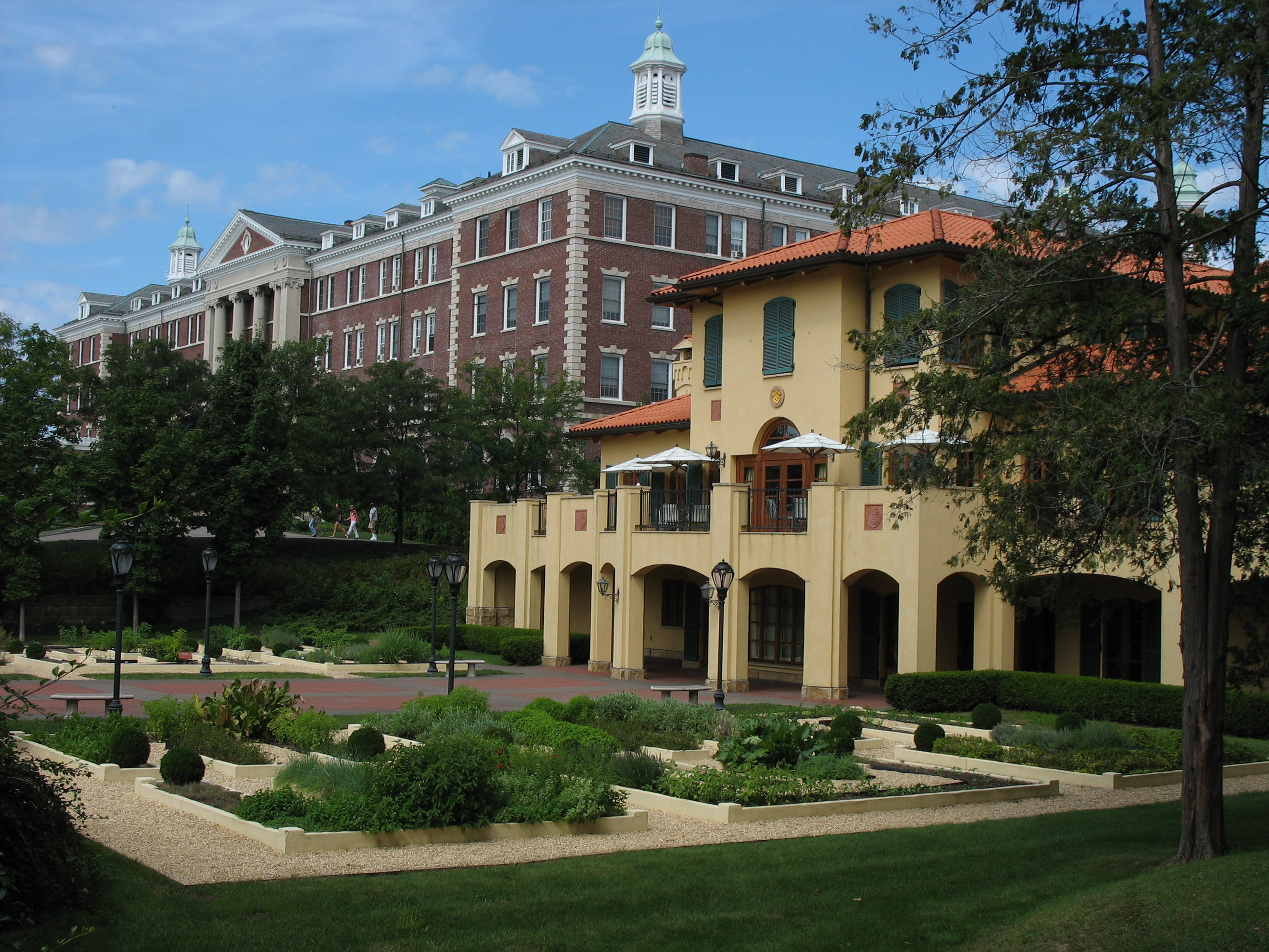 Culinary Institute of America in Hyde Park, NY. Roth Hall (left) and Colavita Center for Italian Food and Wine.